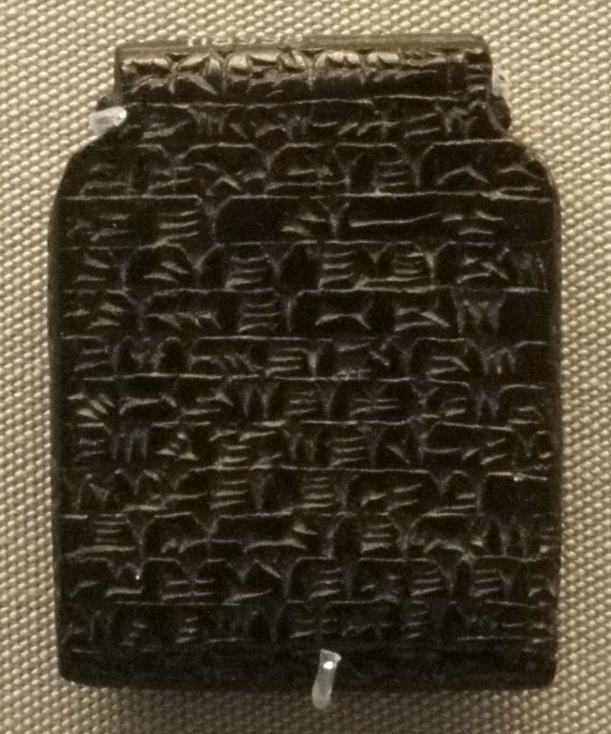 Amulet dating from 800BC-612BC warding off plague. Found in the city of Ashur, Neo-assyrian period.